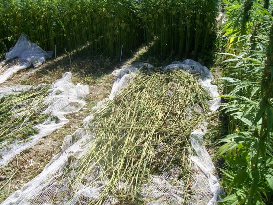 Hemp being harvested. Uploaded by the photographer.